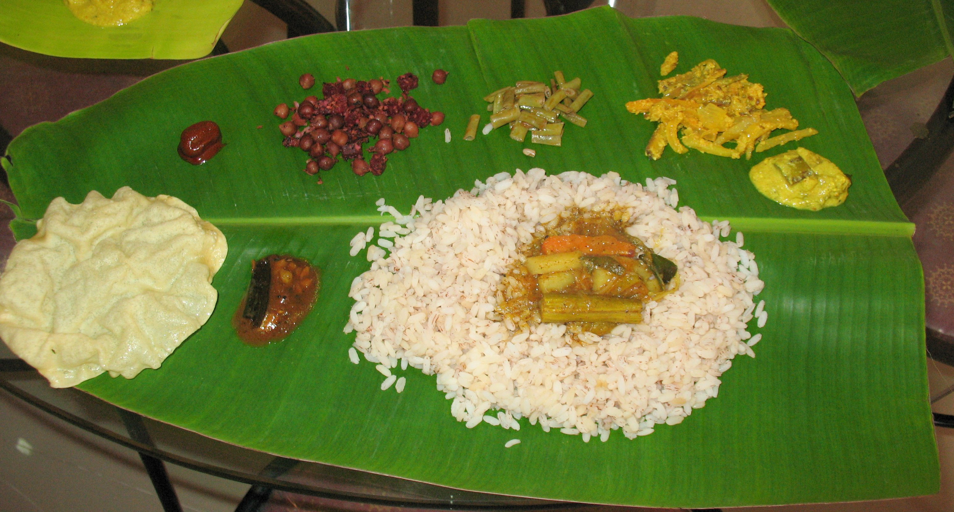 Sadya_Onam